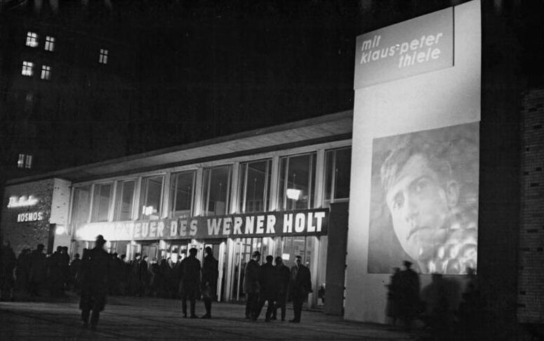 Factual corrections and alternative descriptions are encouraged separately from the original description. Additionally errors can be reported at this page to inform the Bundesarchiv. Original historic description: Berlin, Kino „Kosmos“, Nacht Zentralbild Franke Me 4.2.65 Premiere im „Kosmos“: Die Abenteuer des Werner Holt Am 4. Februar 1965 fand im Berliner Filmtheater „Kosmos“ (unser Foto) „Die Abenteuer des Werner Holt“ statt. Der Film ist frei nach dem ersten Band des gleichnamigen Romans von Dieter Noll gestaltet worden.